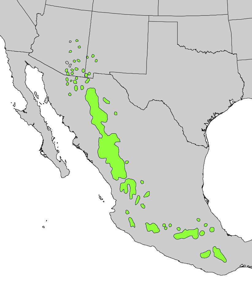 Range map of Pinus leiophylla